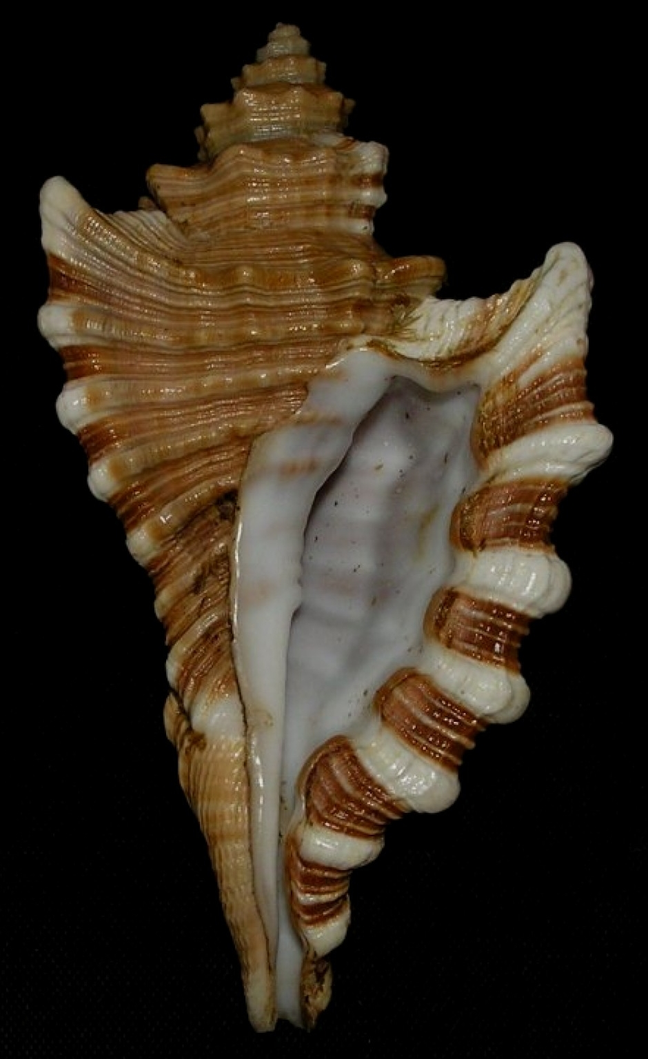 Photograph of the seashell Cymatium femorale (Linnaeus, 1758)[1] - underside view / Origin of image: Own collection. Baie de la Folle Anse. Ile de la Marie Gallante. Guadeloupe. Lesser Antilles.